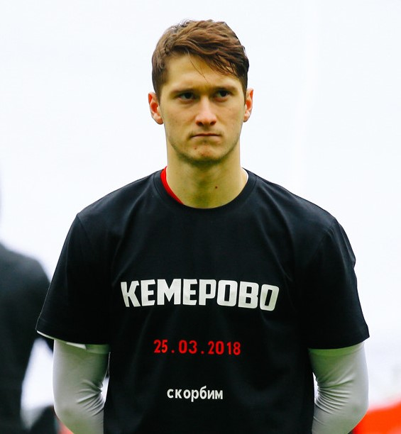 Anton Miranchuk